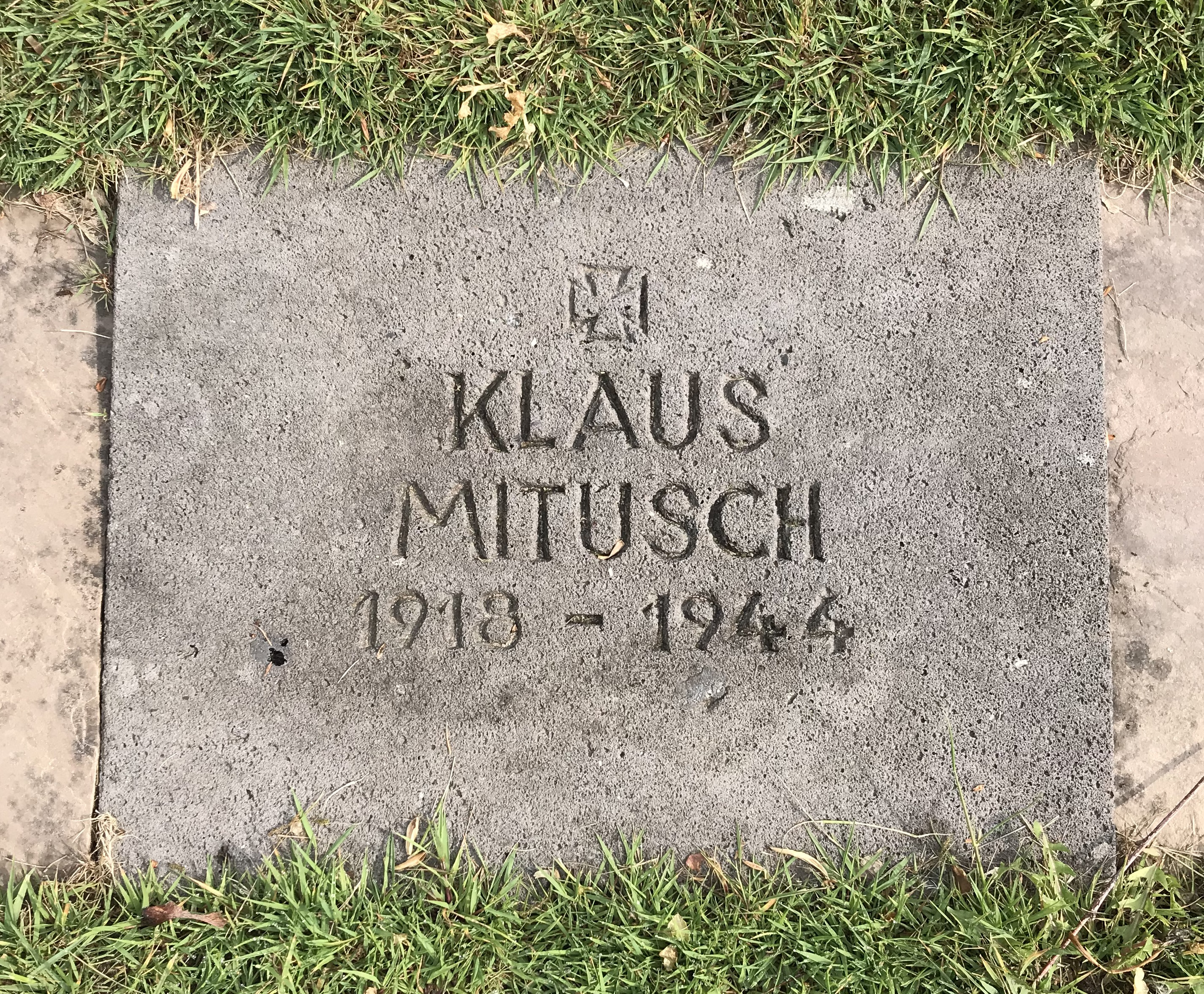 Grave of Klaus Mietusch Field 112-Section 0-Grave 117 on the Nordfriedhof in Düsseldorf